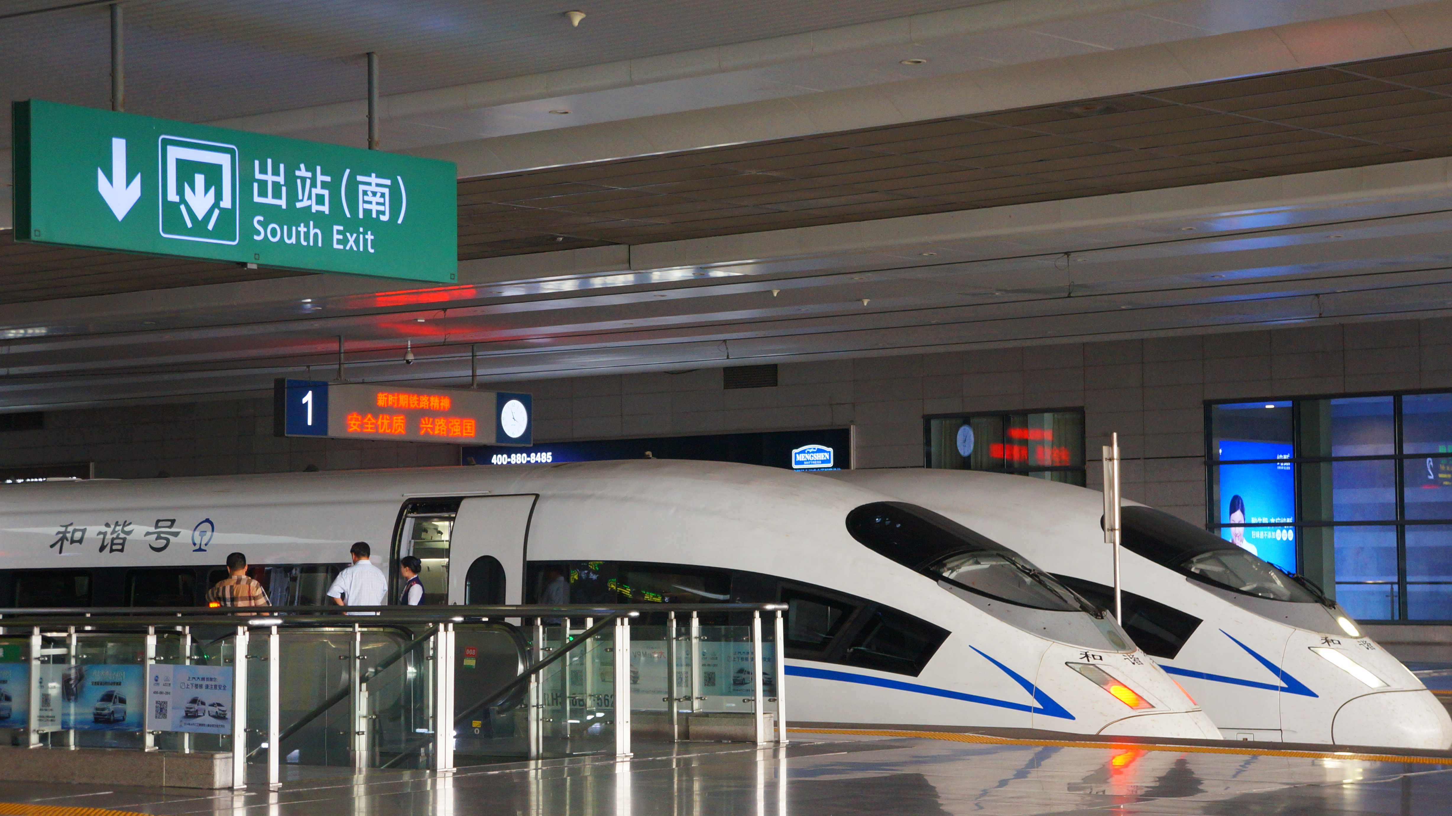 Two CRH380B EMUs at SHQ